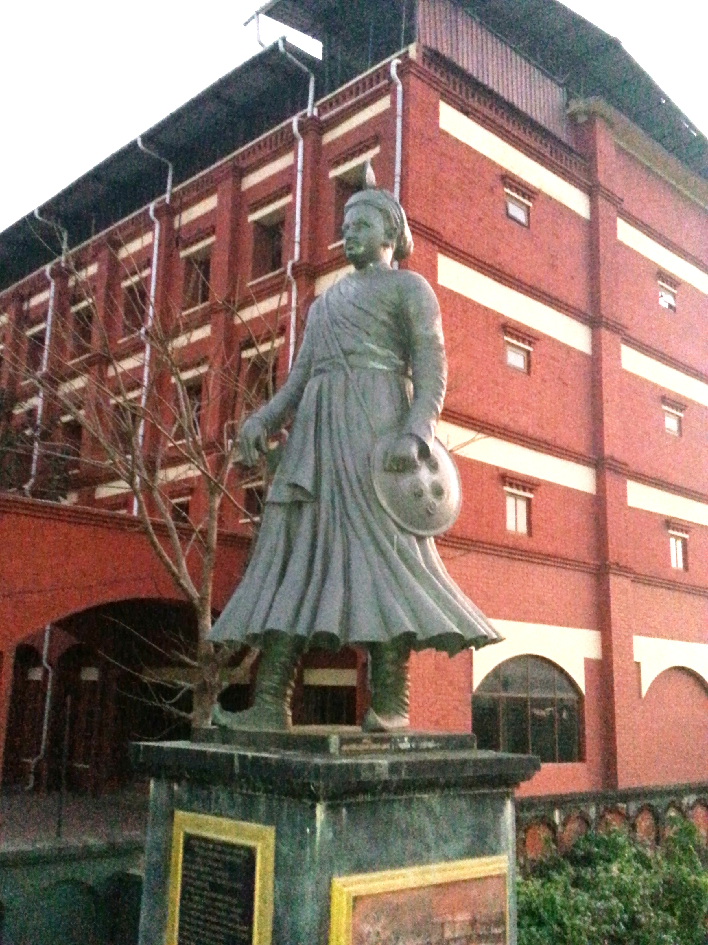 Travencore Diwan Raja Kesava Das Statue in Alleppey - Changanassery Road at Changanassery Junction